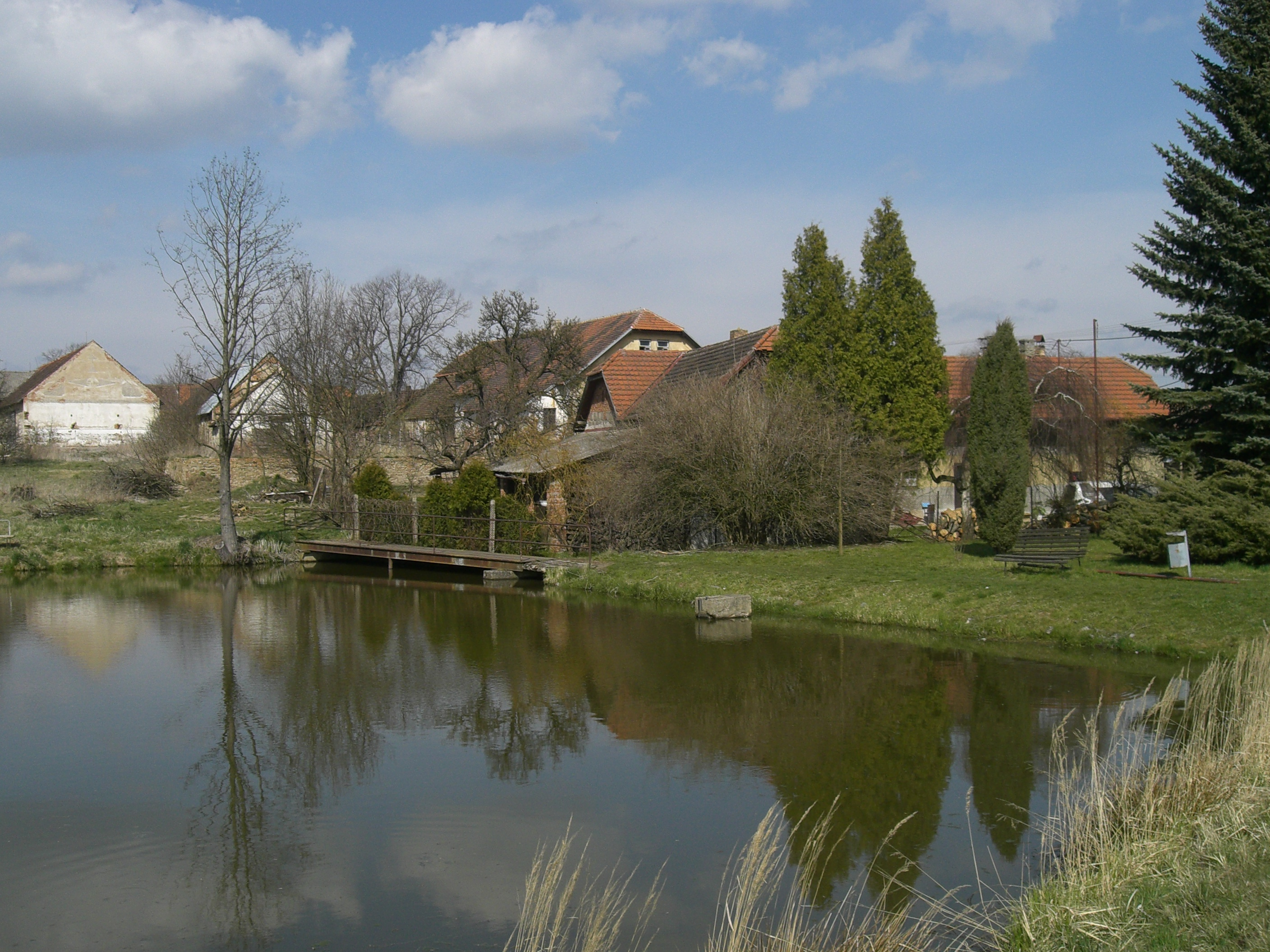 Křenovice village in the Písek District, Czech Republic. Pond in the village.